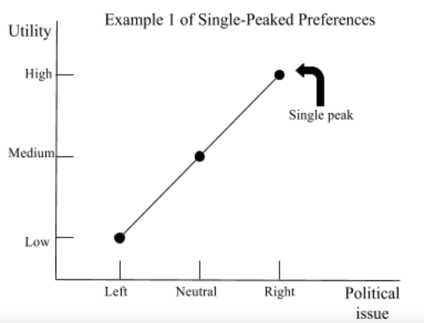 Example 1 of Single-Peaked Preferences